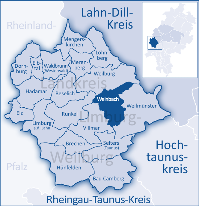 The map shows a district in the area of Limburg-Weilburg